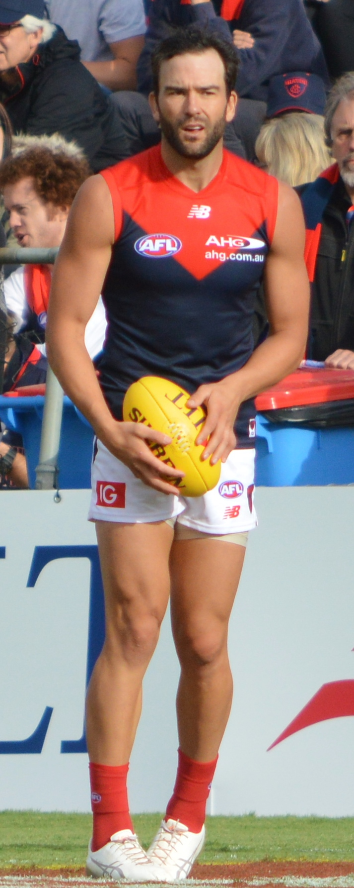 Jordan Lewis playing for Melbourne in the 2017 pre-season series